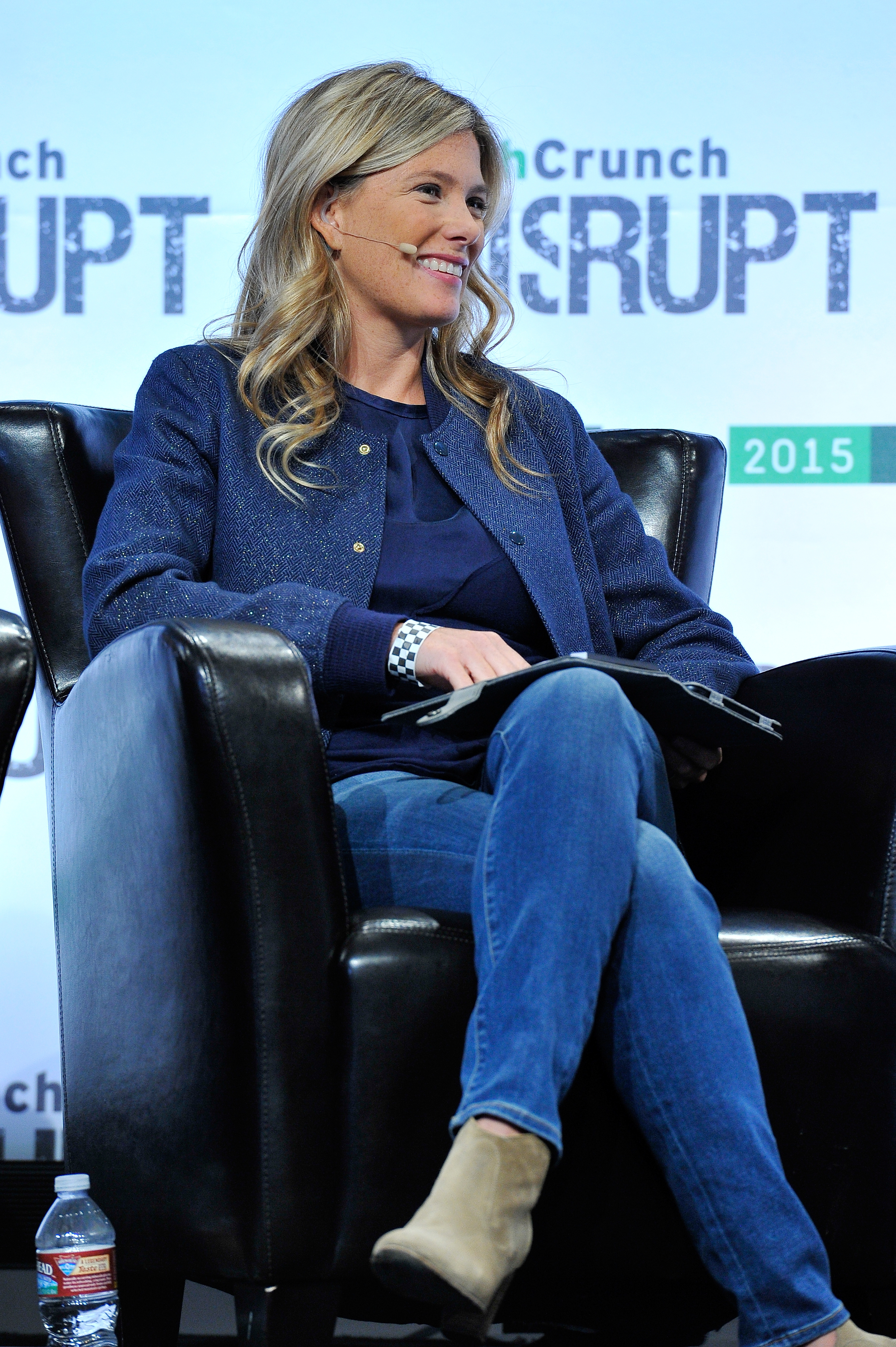 Alexandra Chong at TechCrunch Disrupt SF 2015